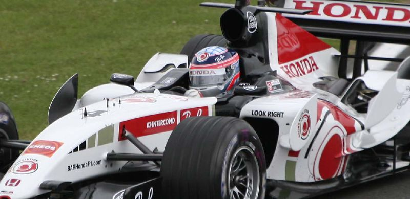 Takuma Sato driving for British American Racing at the 2005 British Grand Prix.